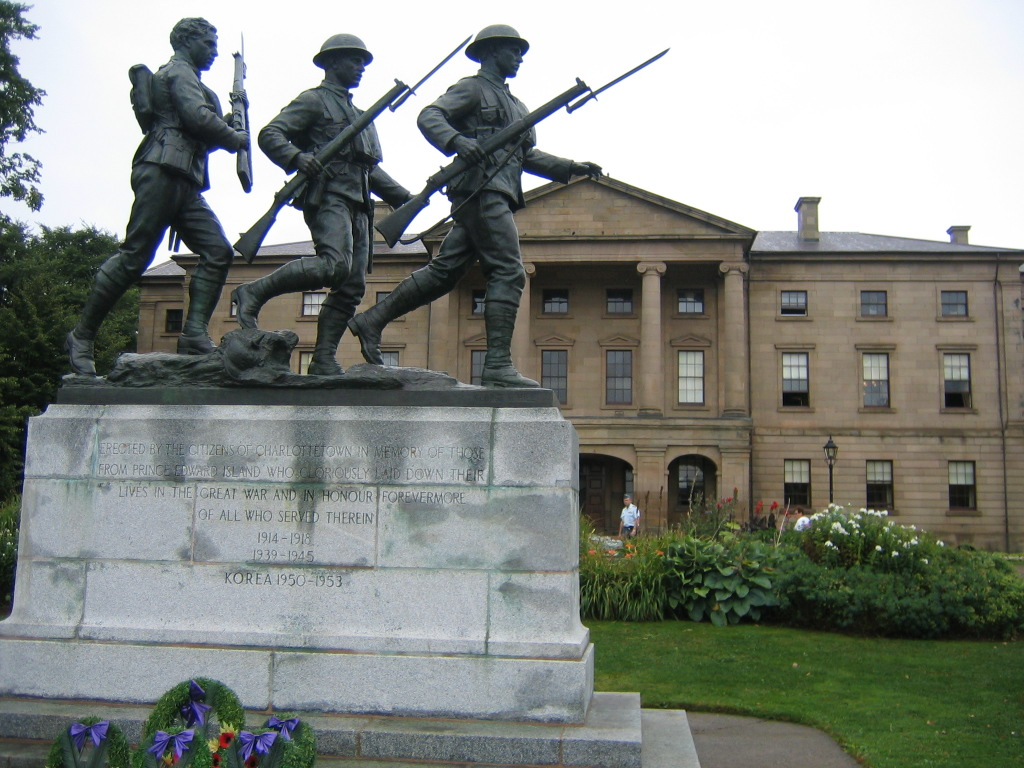 Charlottetown, CanadaThree Soldiers statue near Province House